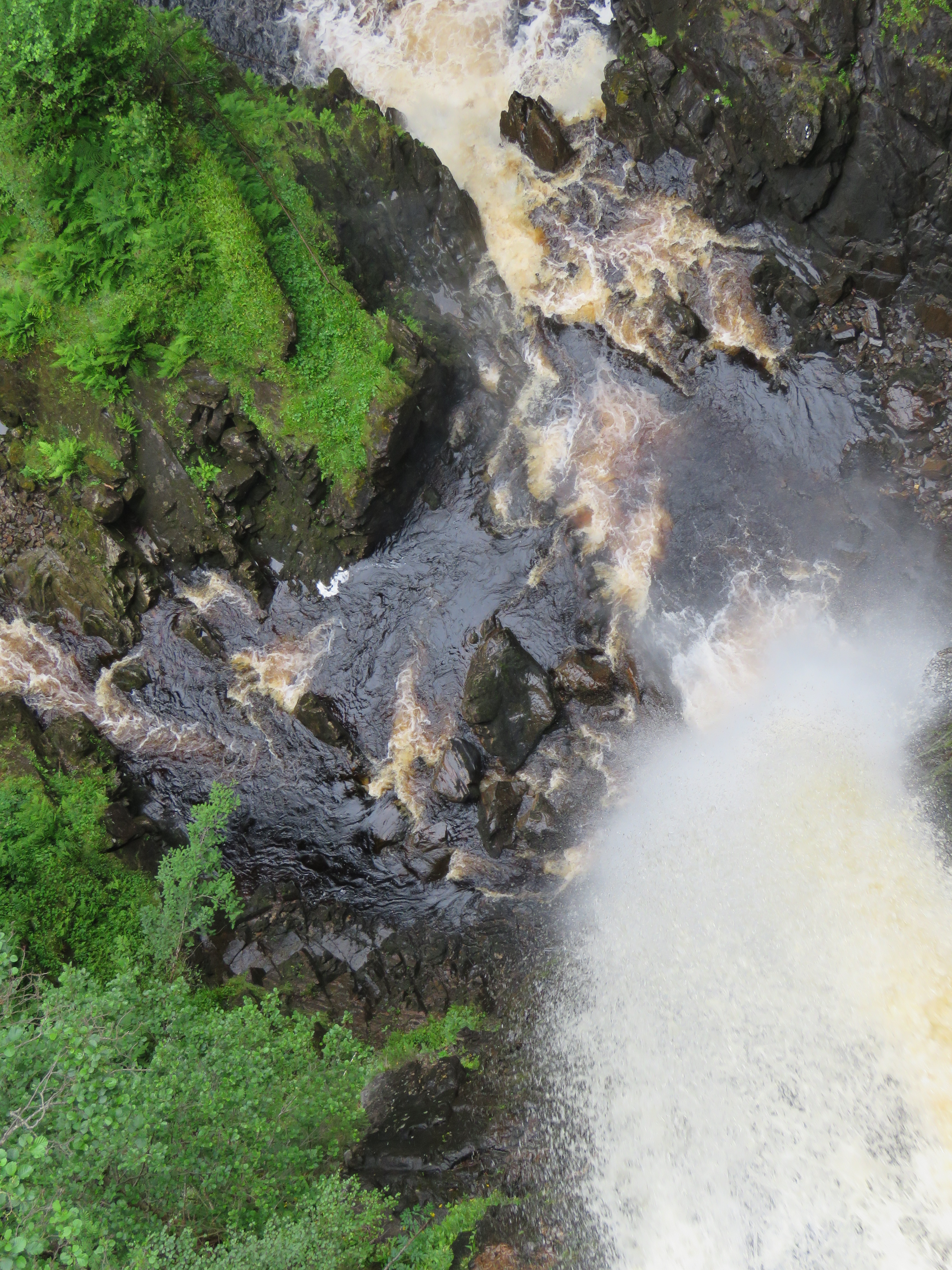 Plodda falls, Glen Affric, Scotland, viewed from above